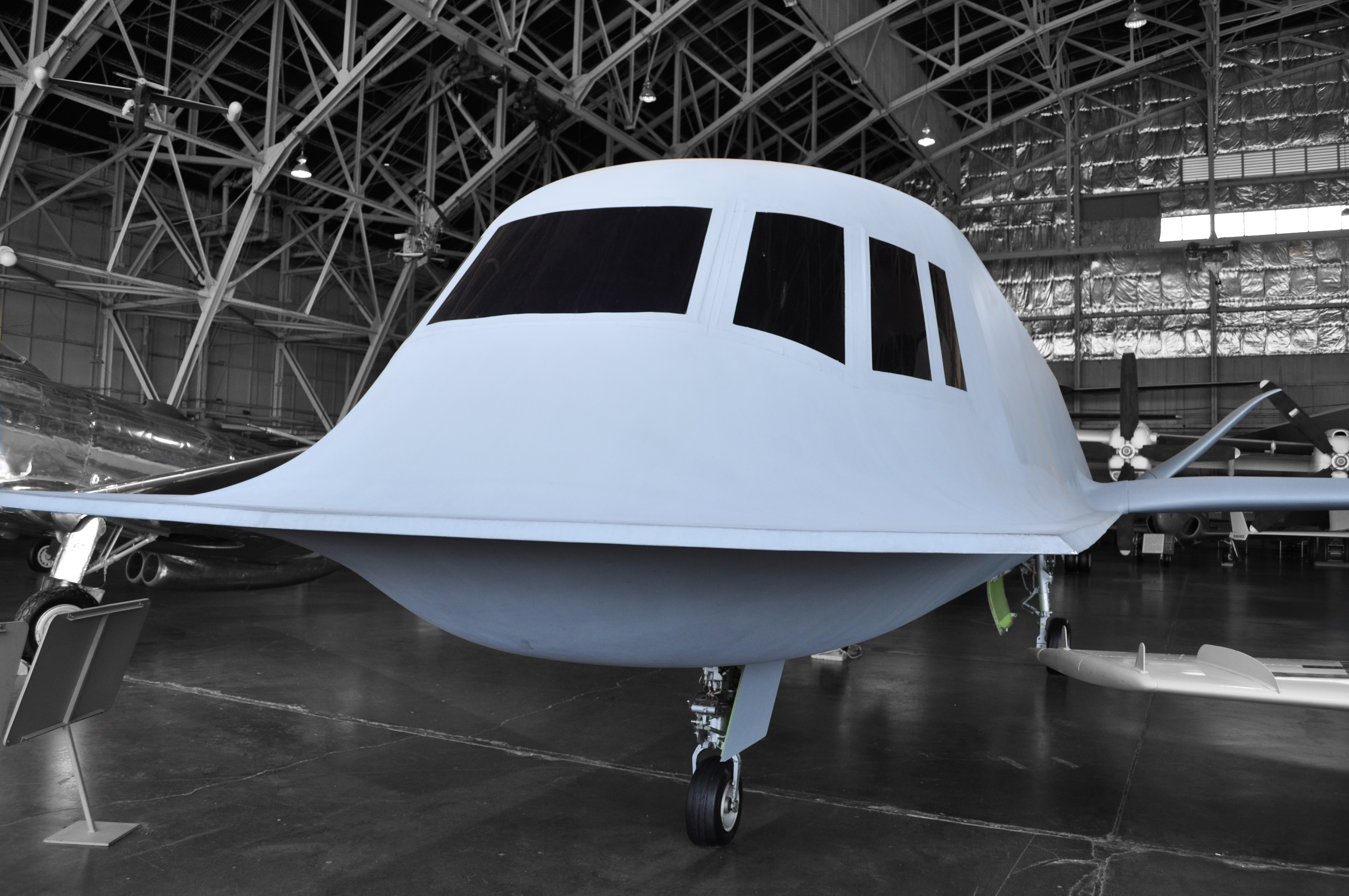 The Tacit Blue (Whale) aircraft was built to test the advances in stealth technology.